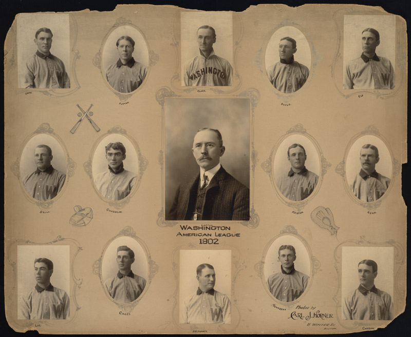 File name: 06_06_000178 Title: Washington Senators Baseball Team, 1902 Creator/Contributor: Horner, Carl J. (photographer) Created/Published: Date created: 1902 Physical description: 1 photographic print : silver print Description: Individual portraits on mount with decorative vignettes in ink wash. In center, portrait of Tom Loftus, manager. Top row, left to right: Al Orth, pitcher, Casey Patten, pitcher, Boileryard Clarke, catcher, Jack Doyle, second baseman, Bones Ely, shortstop. Middle row: Lew Drill, catcher, Bill Coughlin, third baseman, Loftus, Bill Keister, outfielder, Jimmy Ryan, outfielder. Bottom row: Watty Lee, outfielder, Scoops Carey, first baseman, Ed Delahanty, outfielder, Jack Townsend, pitcher, Bill Carrick, pitcher. Genre: Photographic prints; Portrait photographs; Montages Subjects: Baseball players; Washington Nationals (Baseball team) Notes: Photo caption: Washington, American League, 1902; McGreevey no. 158 Location: Boston Public Library, Print Department Rights: No known restrictions